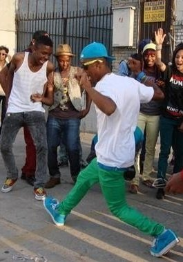 A typical jerk session.